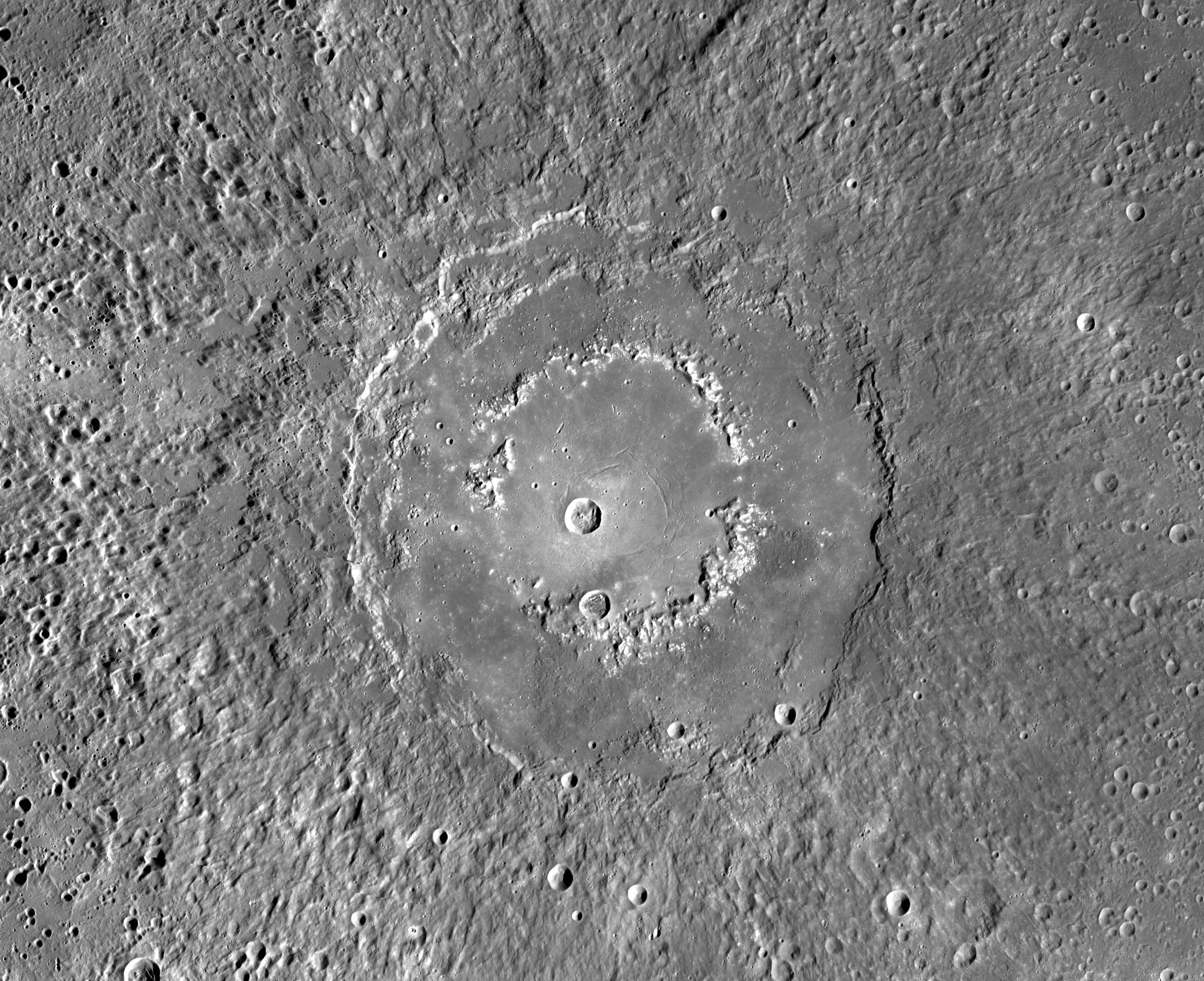 Mosaic showing Raditladi Basin on Mercury, using MESSENGER imagery.Original caption:This Mercury Dual Imaging System (MDIS) mosaic provides a detailed view of the features and structures associated with the peak-ring basin Raditladi. Raditladi, first imaged during MESSENGER's first Mercury flyby and named in April 2008, continues to be an intriguing region of study, with its well-preserved features, relatively young age, exterior impact melt ponds, hollows-covered peak ring, and concentric troughs on its floor.